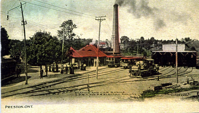 GP&H and P&B station and car barn, Preston, 1904